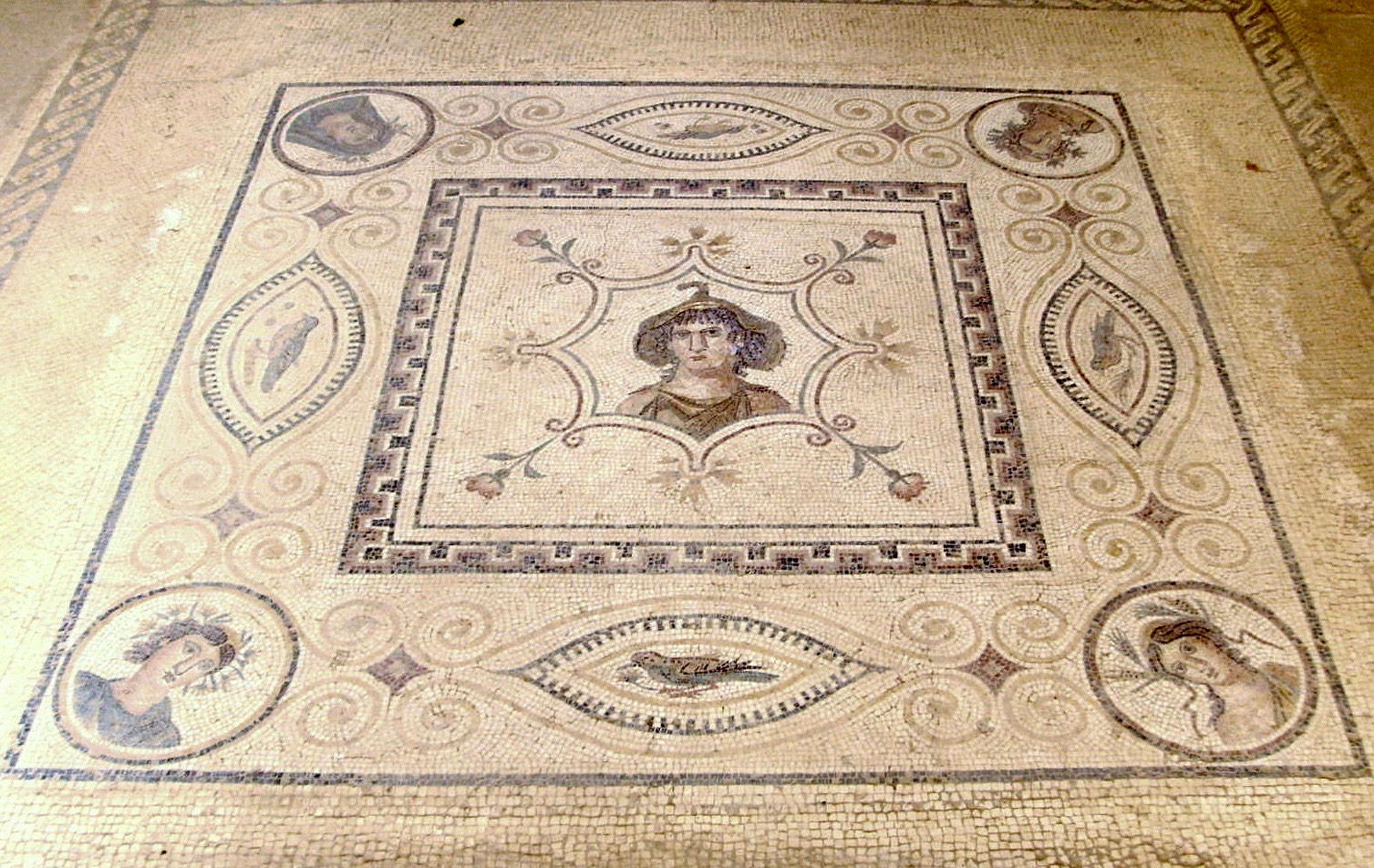 A derivative work of the following wikimedia image available with creative commons license: File:El Jem Museum (6).JPG